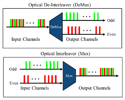 Optical interleaver